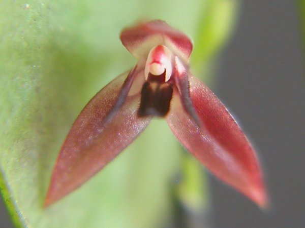 Anathallis